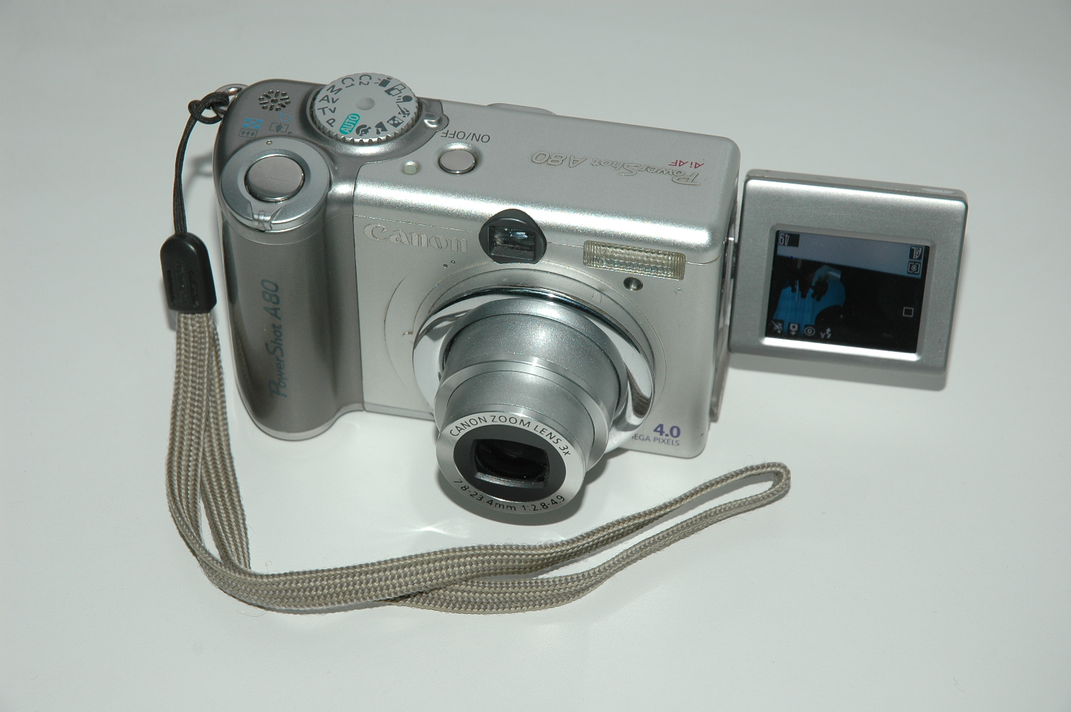 Canon PowerShot A80